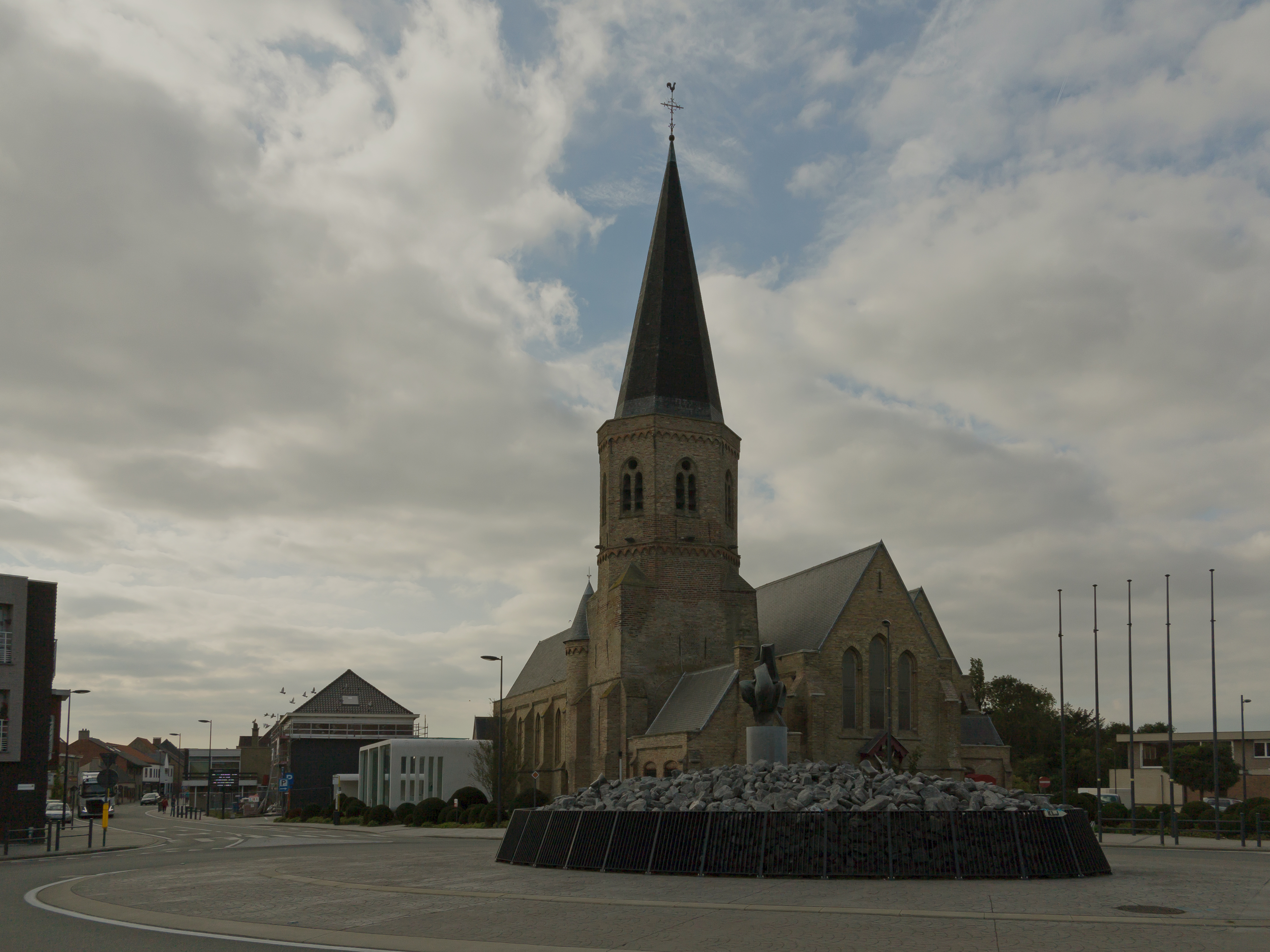 Westkerke, church: de Sint Audomaruskerk